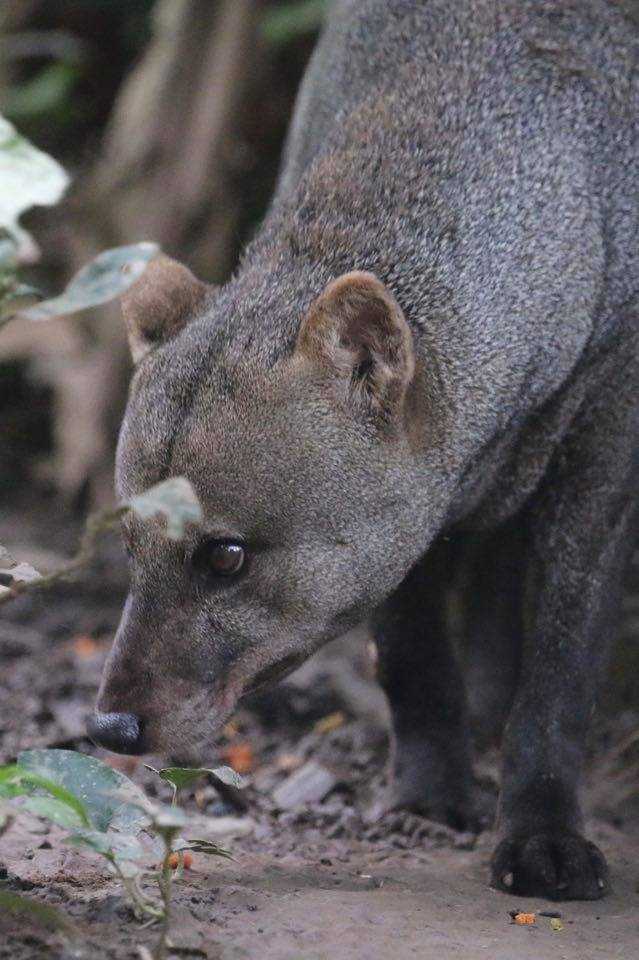 Face of Atelocynus microtis